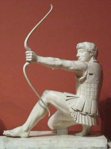 Plaster copy of Heracles' statue from East pediment of the temple of Aphaia